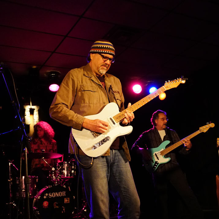 Greg Koch live at Shank Hall in Milwaukee Wisconsin 3-16-19